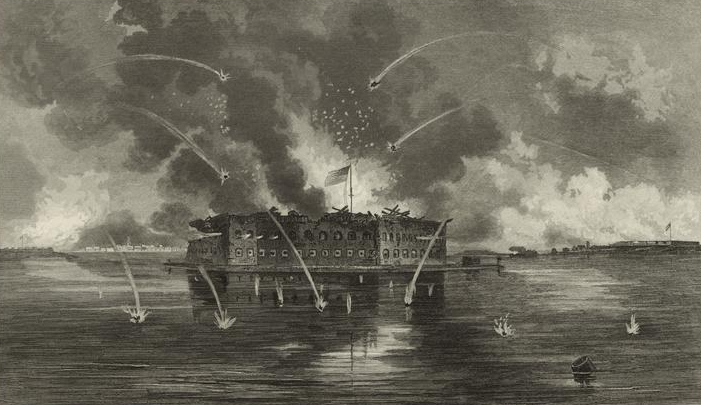 Bombardment of Fort Sumter in 1861, Engraved in 1863 expressly for Abbotts Civil War; print: b&w; 14 x 20 cm. (5 1/2 x 8 in.), The NYPL, #id=813059.